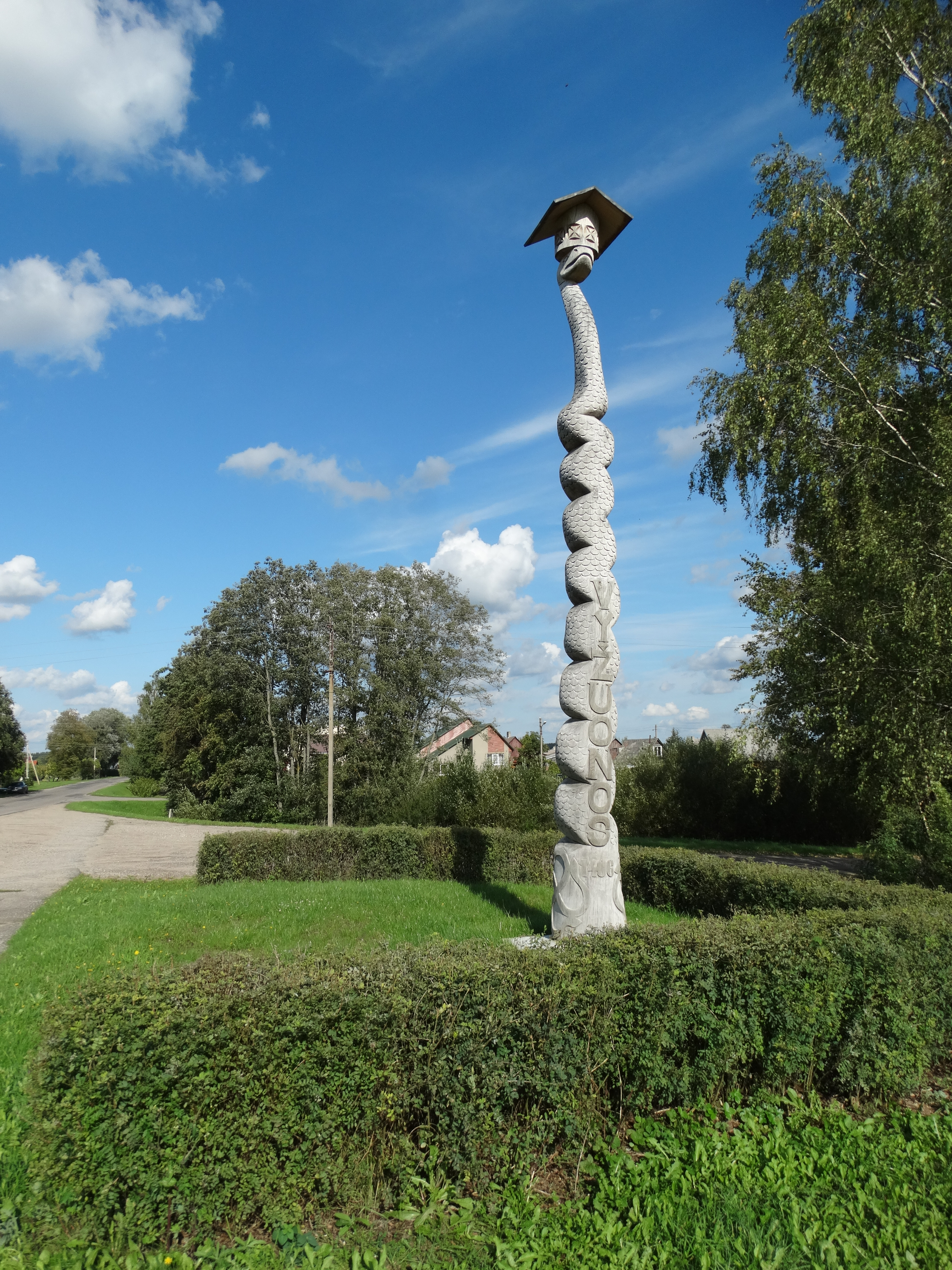 Vyžuonos, Utena district, Lithuania